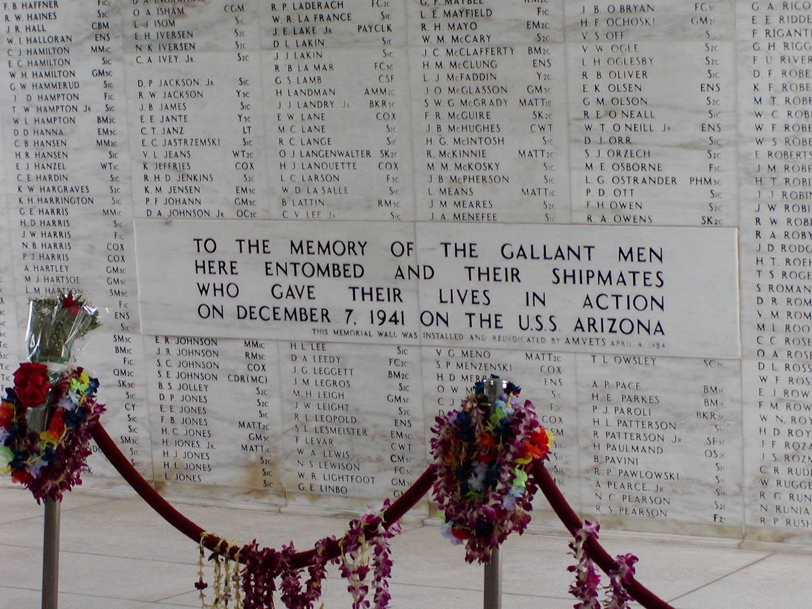 Photo of memorial wall inside the Arizona Memorial